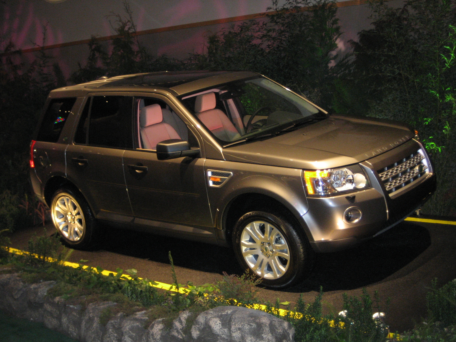 A preproduction 2008 Land Rover LR2 (Freelander 2 outside North America) shown at the Portland International Auto Show.